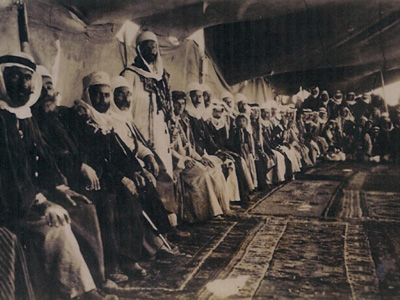 Photograph by Luigi Stironi 1926 of a meeting of Druze leaders in a ceremonial tent in the Jabal al-Druze (The Druze Mountain) region in southern Syria. The settlement of the Druze in the Lega region of Hauran (Bashan) followed the battle of Ain-Dara, east of The village of Sofar in the Mount of Lebanon in 1711. The battle was the culmination of the struggle for power between the Qaisyyoun faction (The Maan and The Shihab Clan) and the Yemenite faction (Imad al-Din Clan). The defeated Yemenites migrated to the sparsely inhabited Al-Lega region, known today as the Druze Mountain.